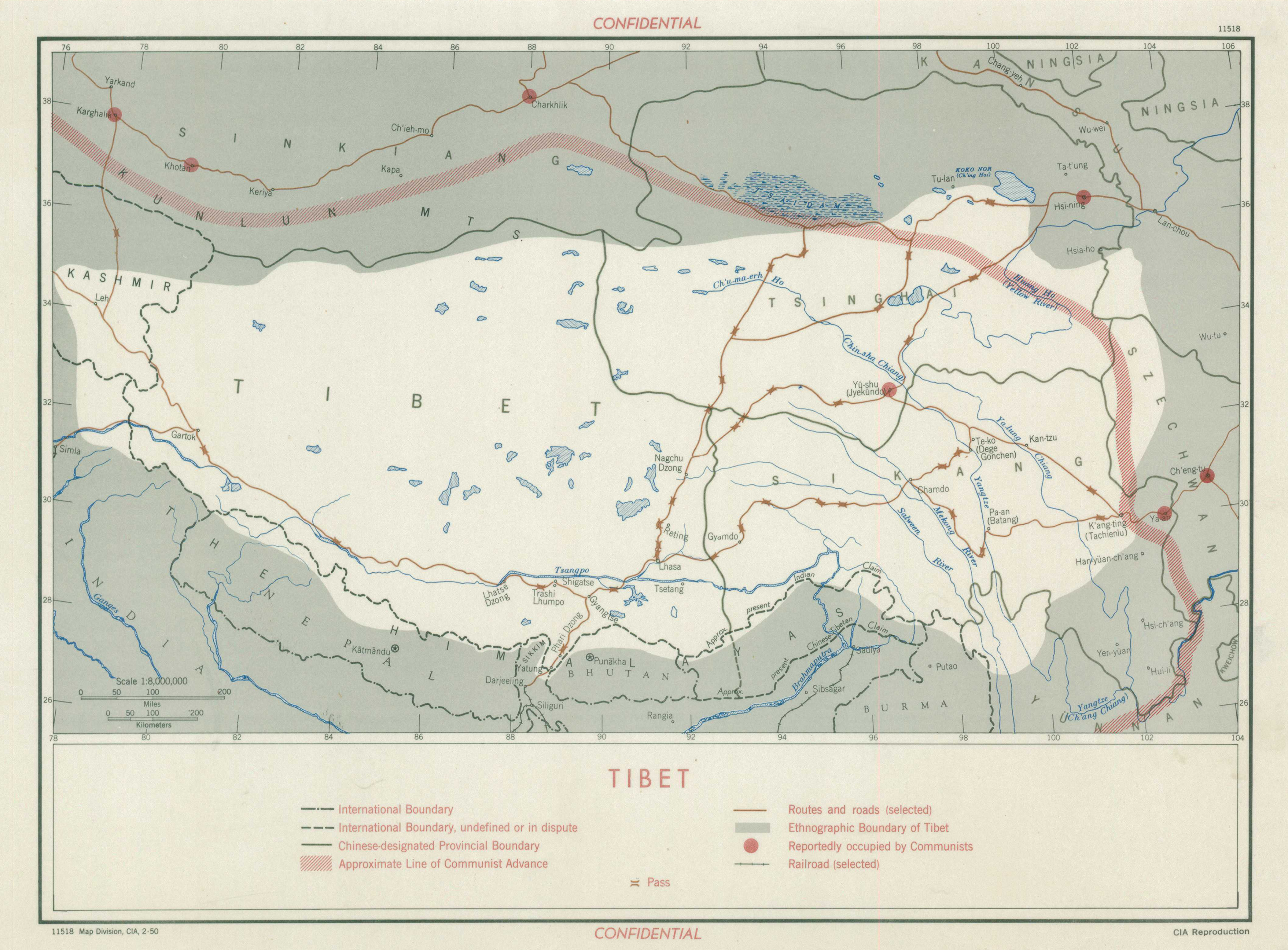 CIA Map of Tibet with "Approximate Line of Communist Advance" and cities "Reportedly occupied by Communists" dated February 1950 and marked "CONFIDENTIAL"